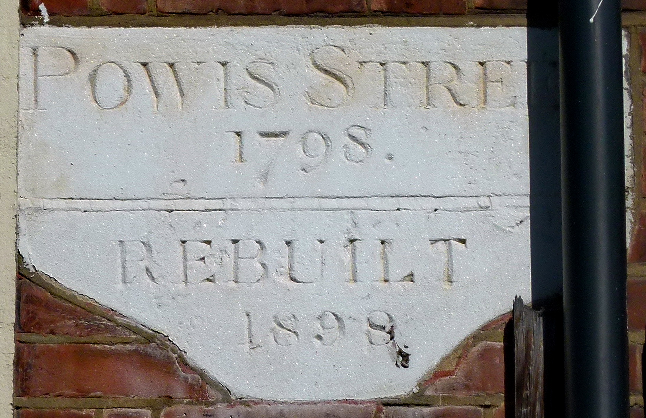 Detail of Powis Street nos 170-172, Woolwich, South East London, UK. The datestone records the formation of Powis Street in 1798, as well as the rebuilding of this property in 1898.